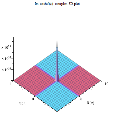 Coshc'(z) Im complex 3D plot